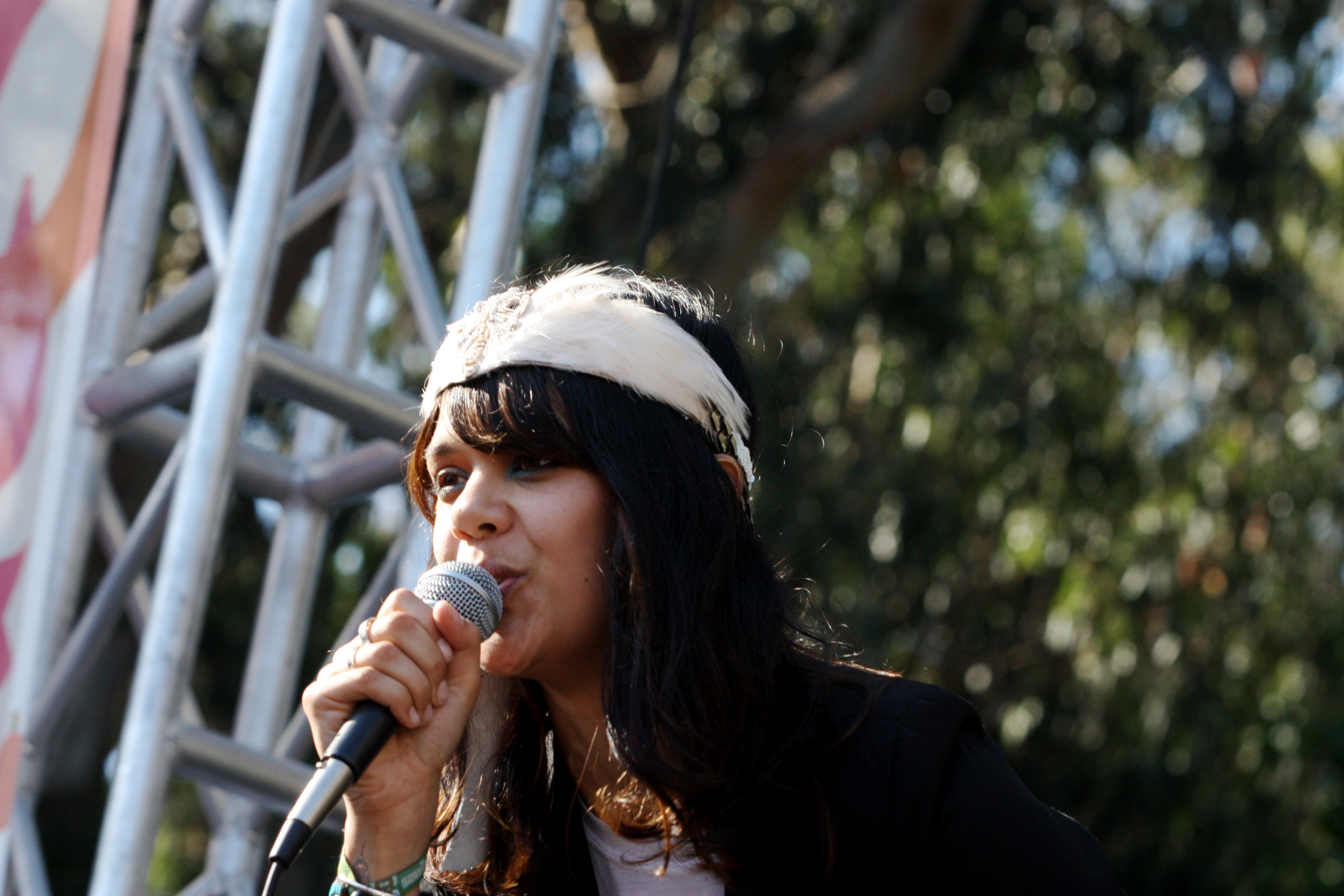 Bat For Lashes at the Outside Lands 2009